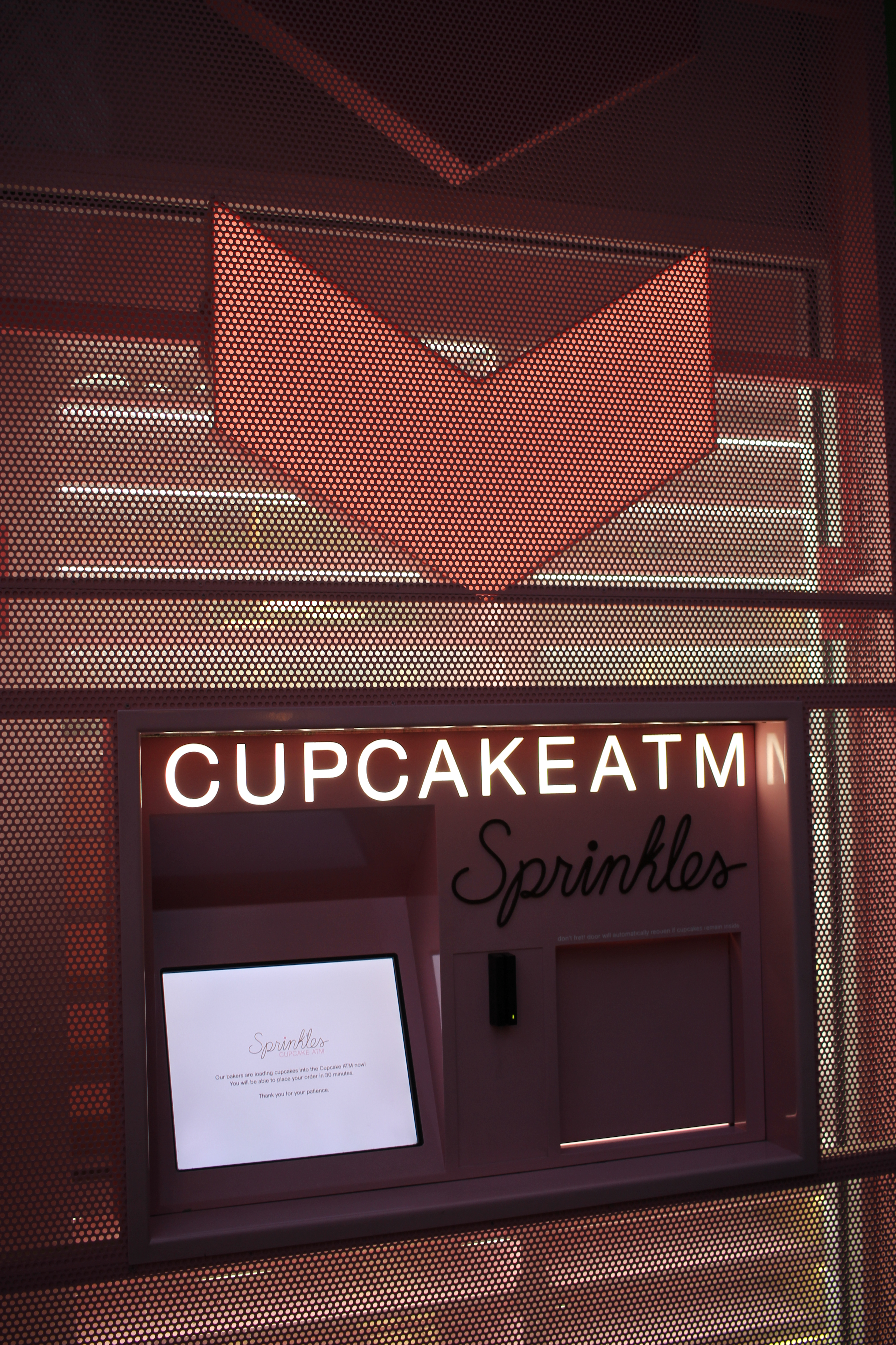 that’s right, a cupcake ATM